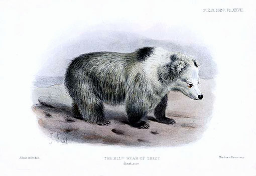 Tibetan blue bear (Ursus arctos pruinosus)